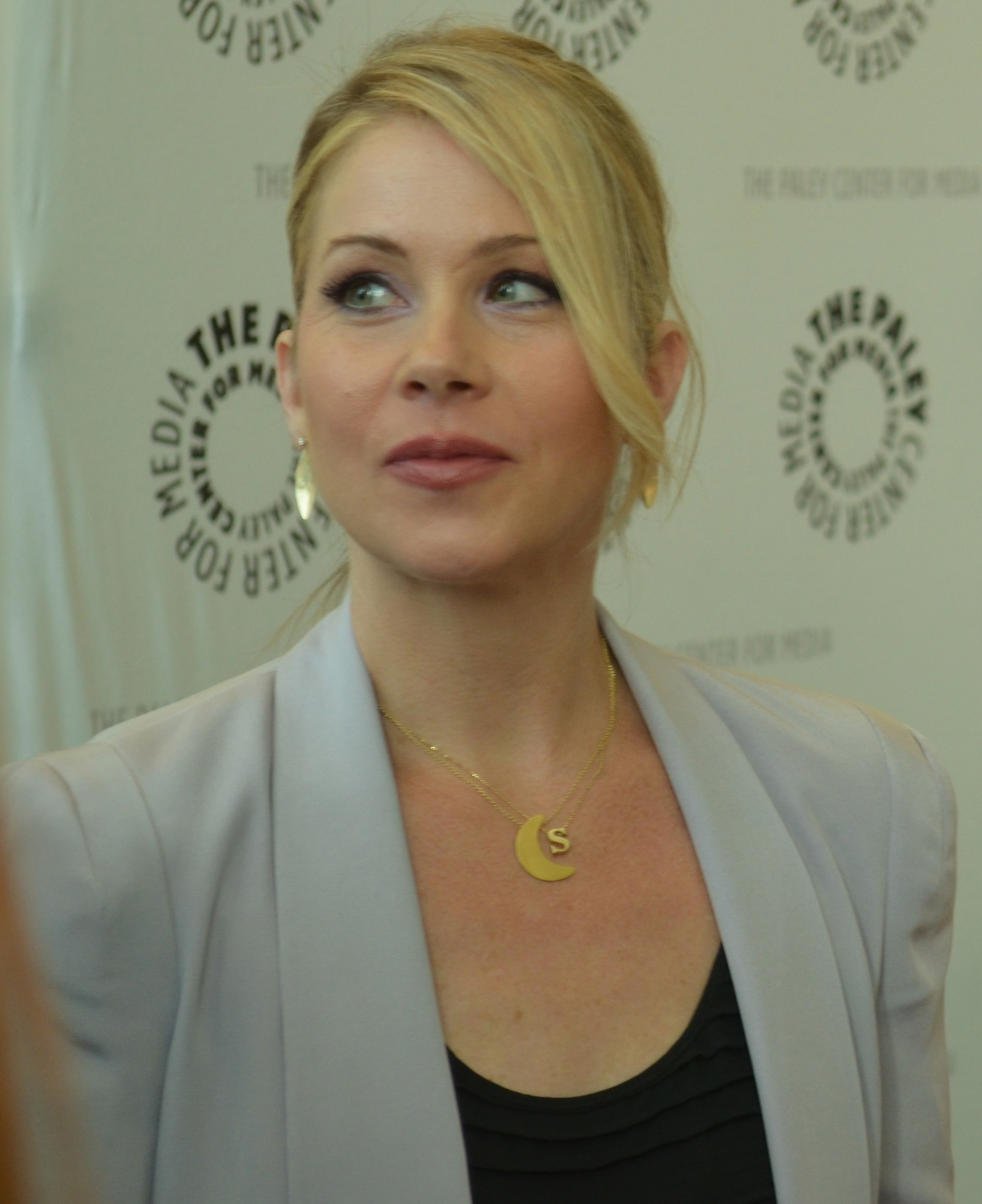 Christina Applegate at the "Up All Night" Cast at Paley Center 2012.